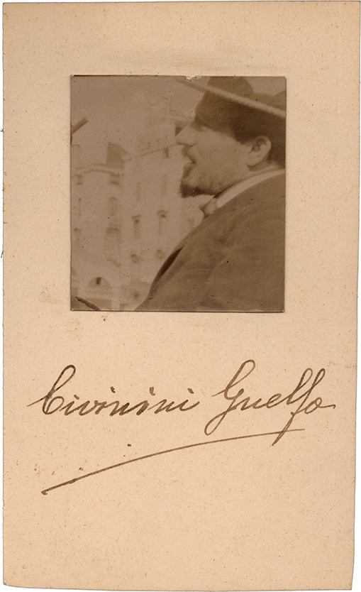 Portrait of Guelfo Civinini, librettist (1873-1954). Photo by unknown, before 1954.